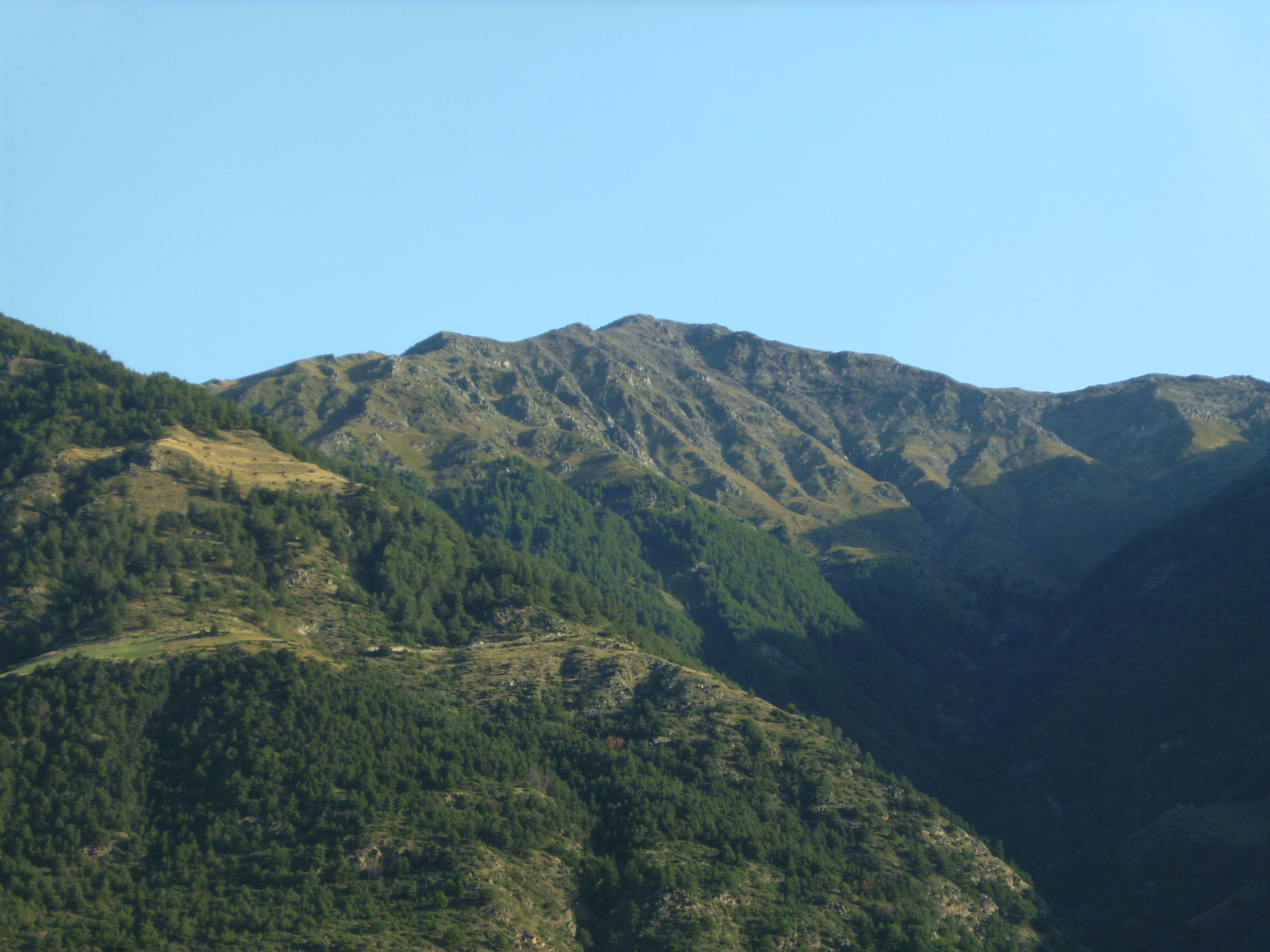 Graue Wand at Goldrain, South Tyrol